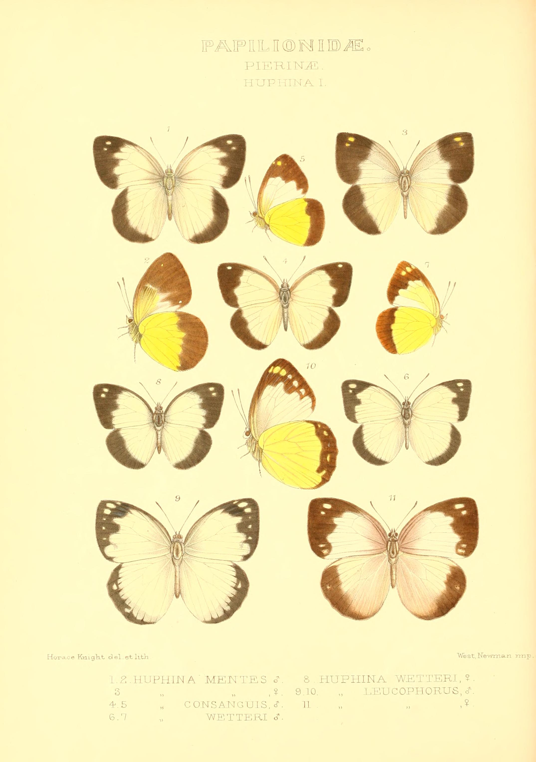 Grose-Smith, H. & Kirby, W.F. (1887-1892): Rhopalocera exotica, being illustrations of new, rare and unfigured species of butterflies London 1:x, [1-183]. Plate Pierinae Huphina I Huphina mentes synonym for Cepora perimale mentes (Wallace, 1867) Huphina consanguis synonym for Cepora perimale consanguis (Butler, 1883) Huphina wetteri synonym for Cepora perimale wetteri (Grose-Smith, 1898) Huphina leucophorus synonym for Cepora perimale leucophora (Grose-Smith, 1897)